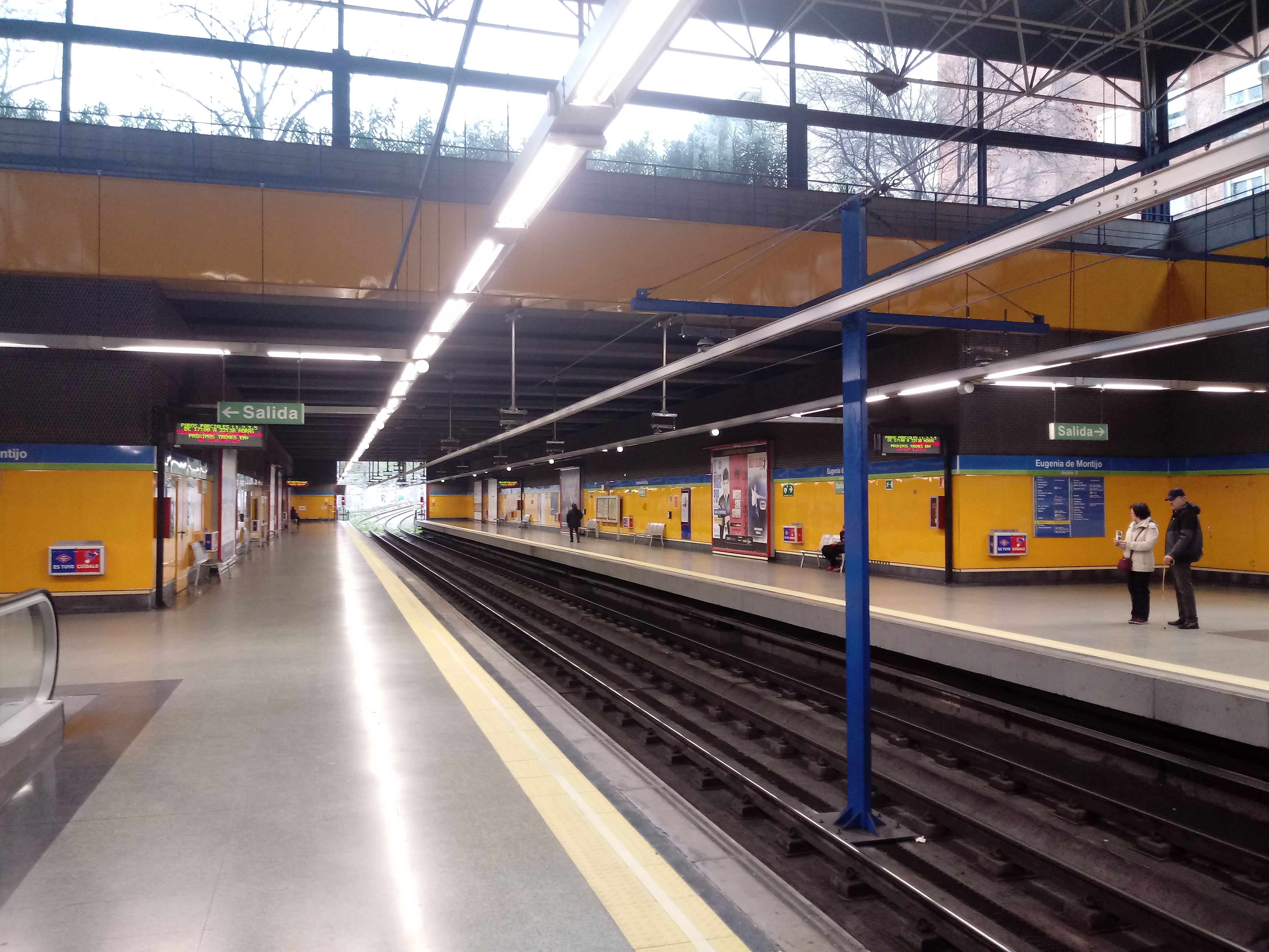 Platforms of Eugenia de Montijo stations (L5), in the Madrid metro